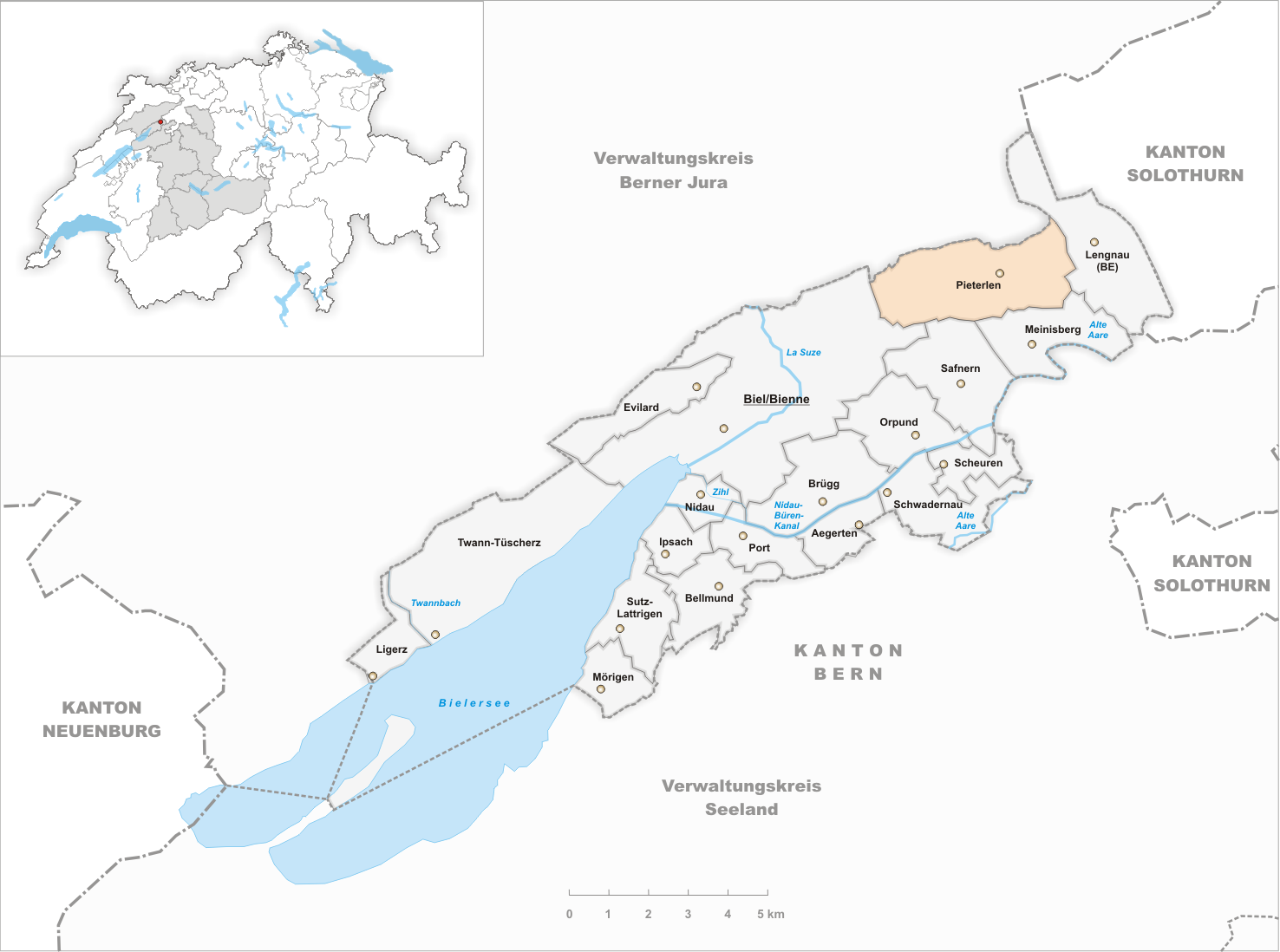 Municipality Pieterlen